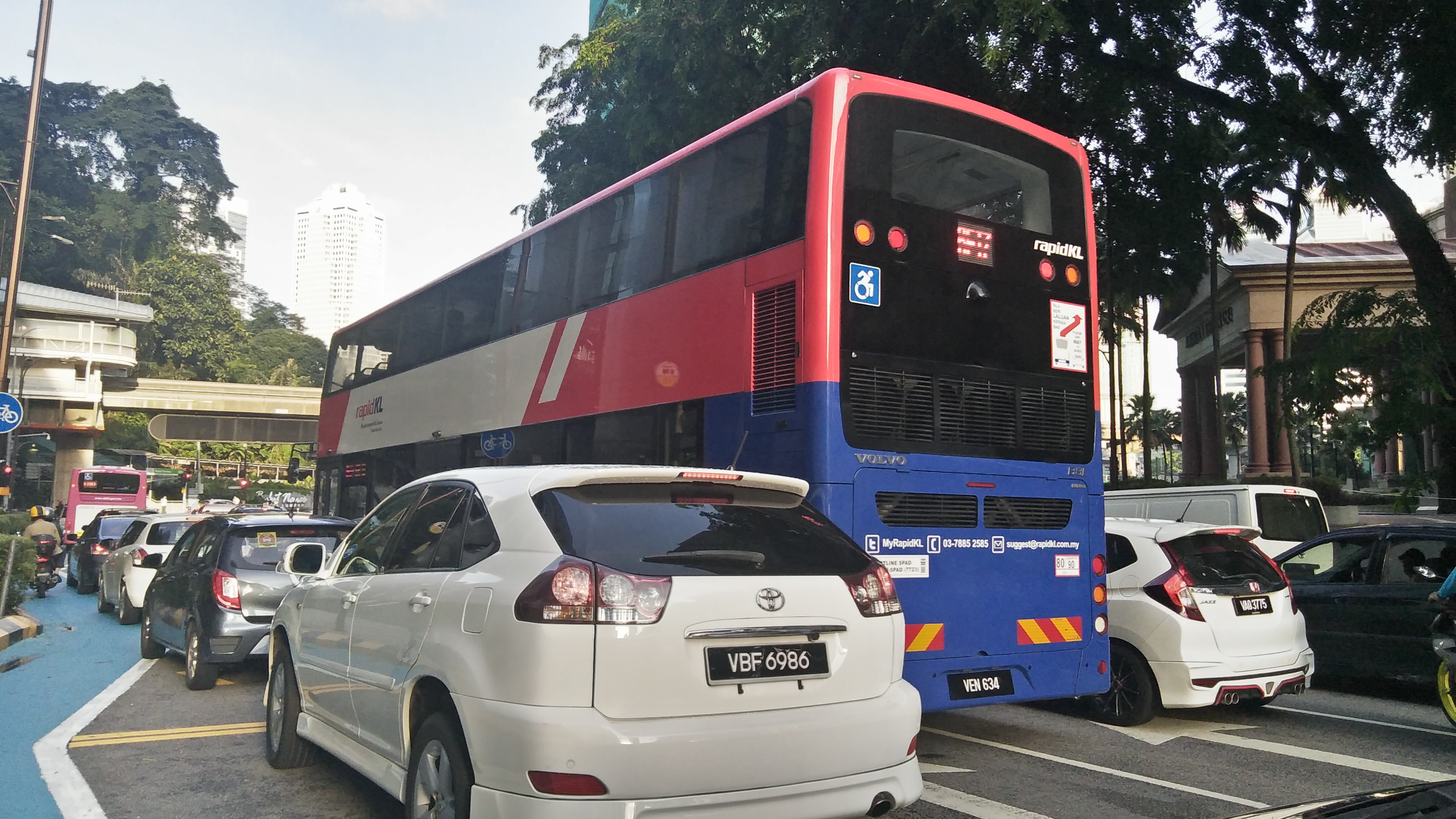 This bus were shot at Renaissance Hotel at the early morning rush hour.